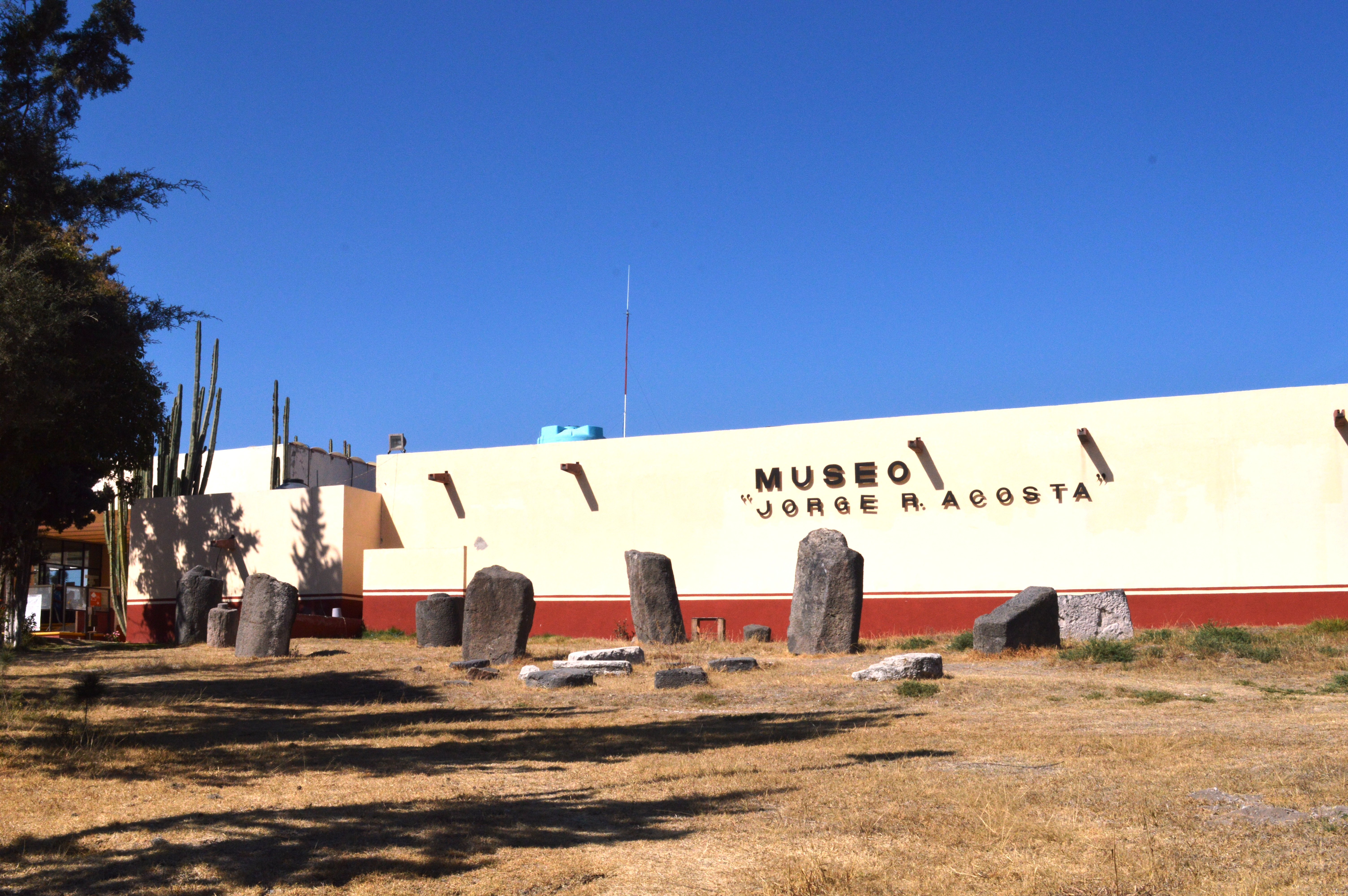 Facade of the Jorge R. Acosta site museum of the Tula archeological site in Hidalgo, Mexico